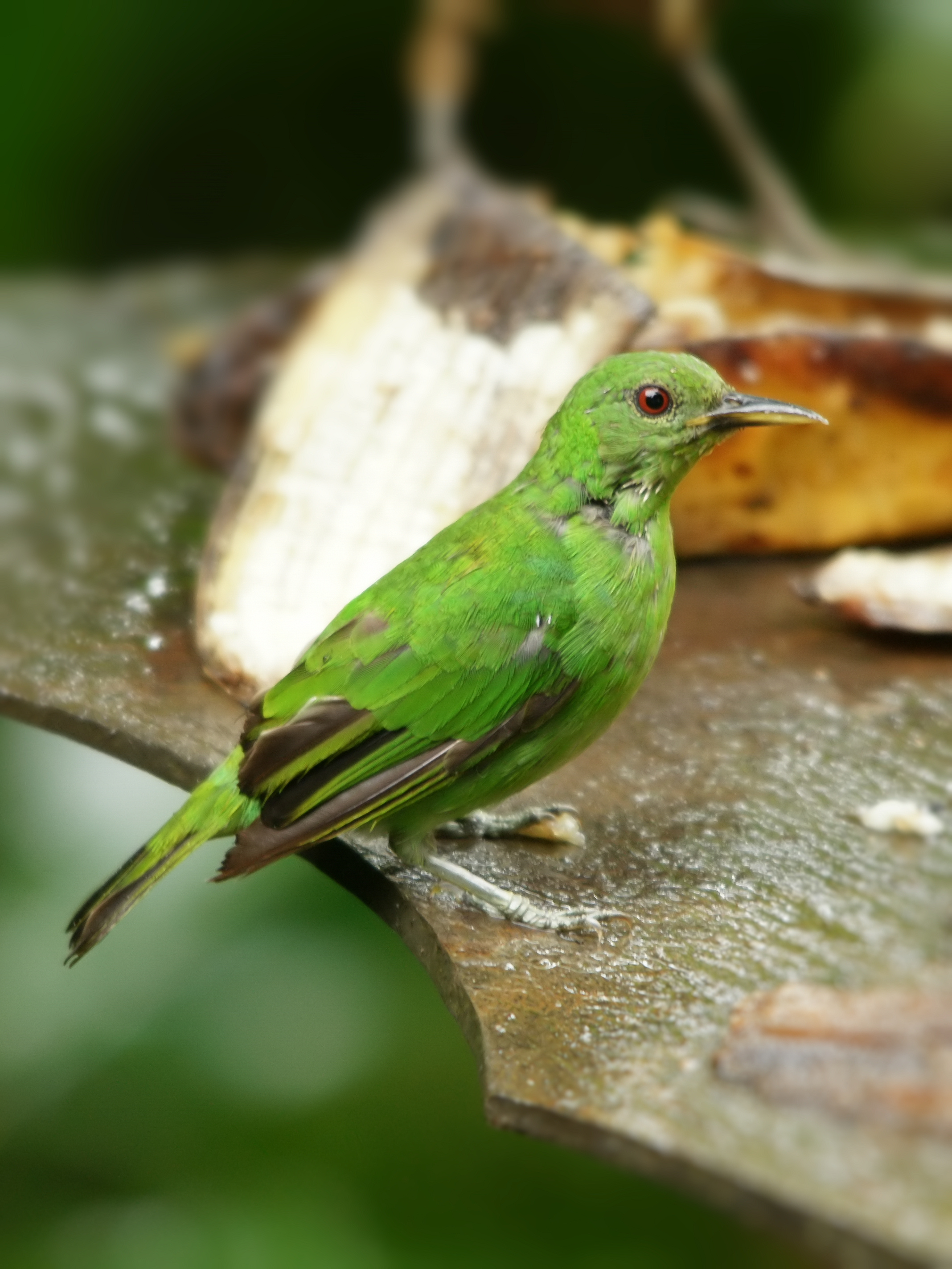 Female Green Honeycreeper near Las Horquetas, Costa Rica.